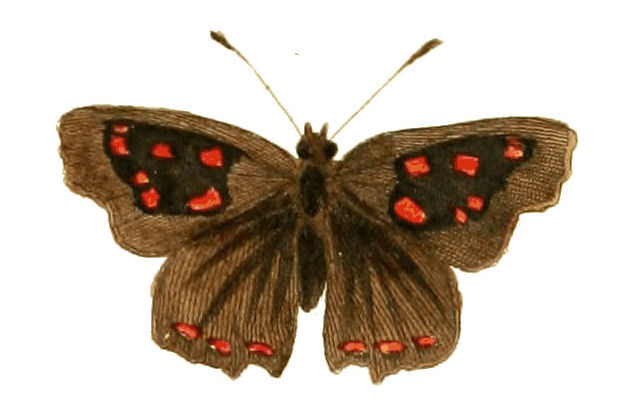 Extract from Plate II. POLYOMMATUS THERO (= Phasis thero).